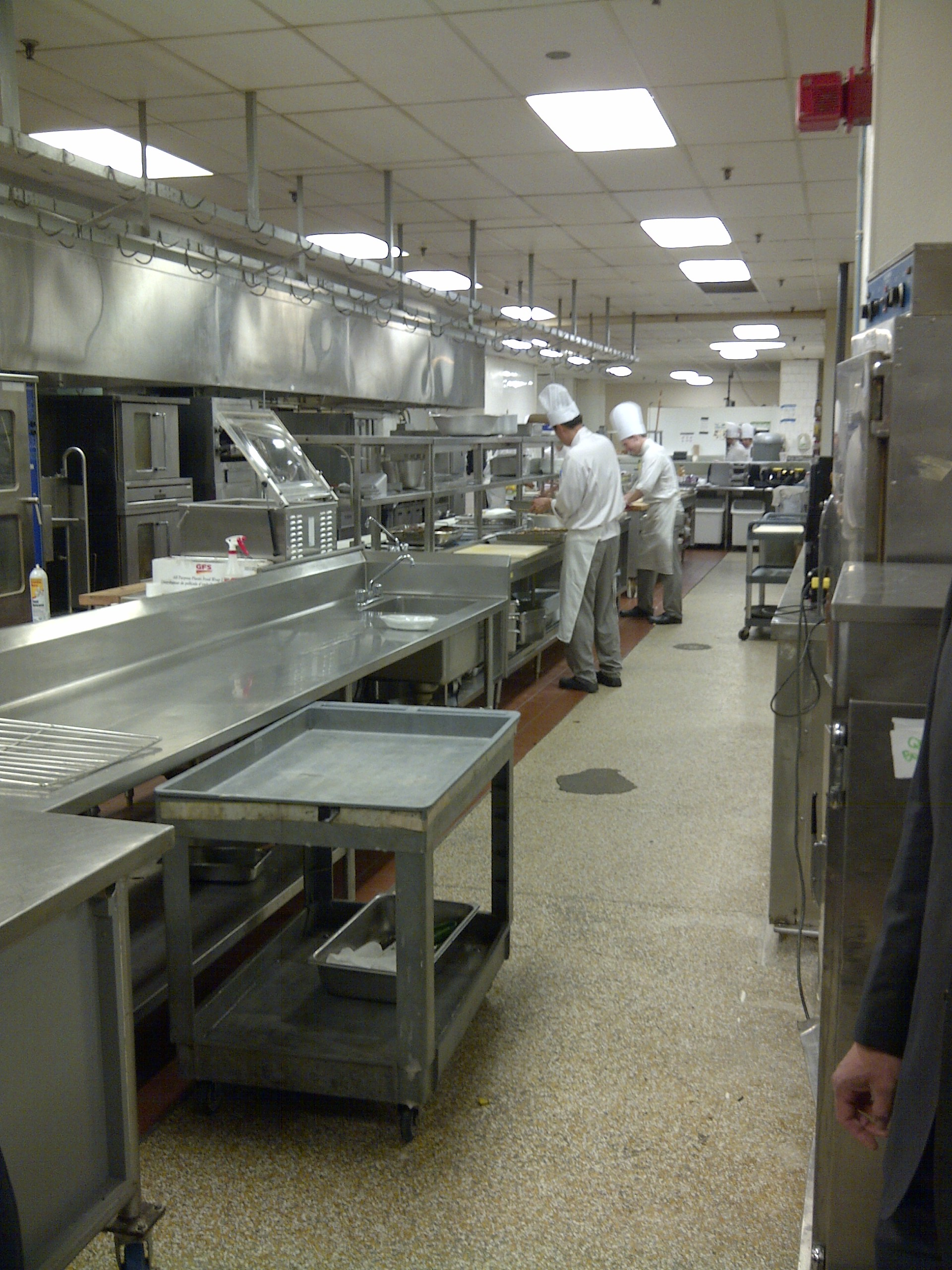 Banquet kitchen (one of three kitchens) at the Château Laurier hotel. Ottawa, Ontario, Canada.